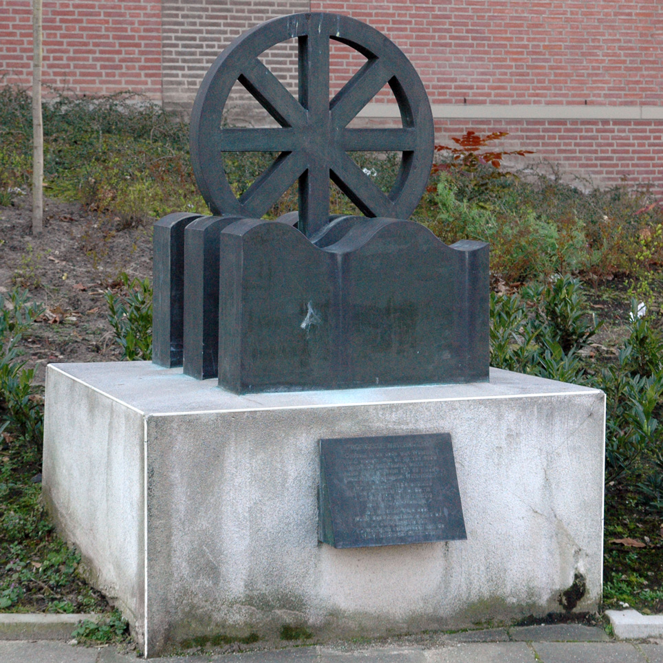 Piece of art symbolizing the former watermill at Woensel